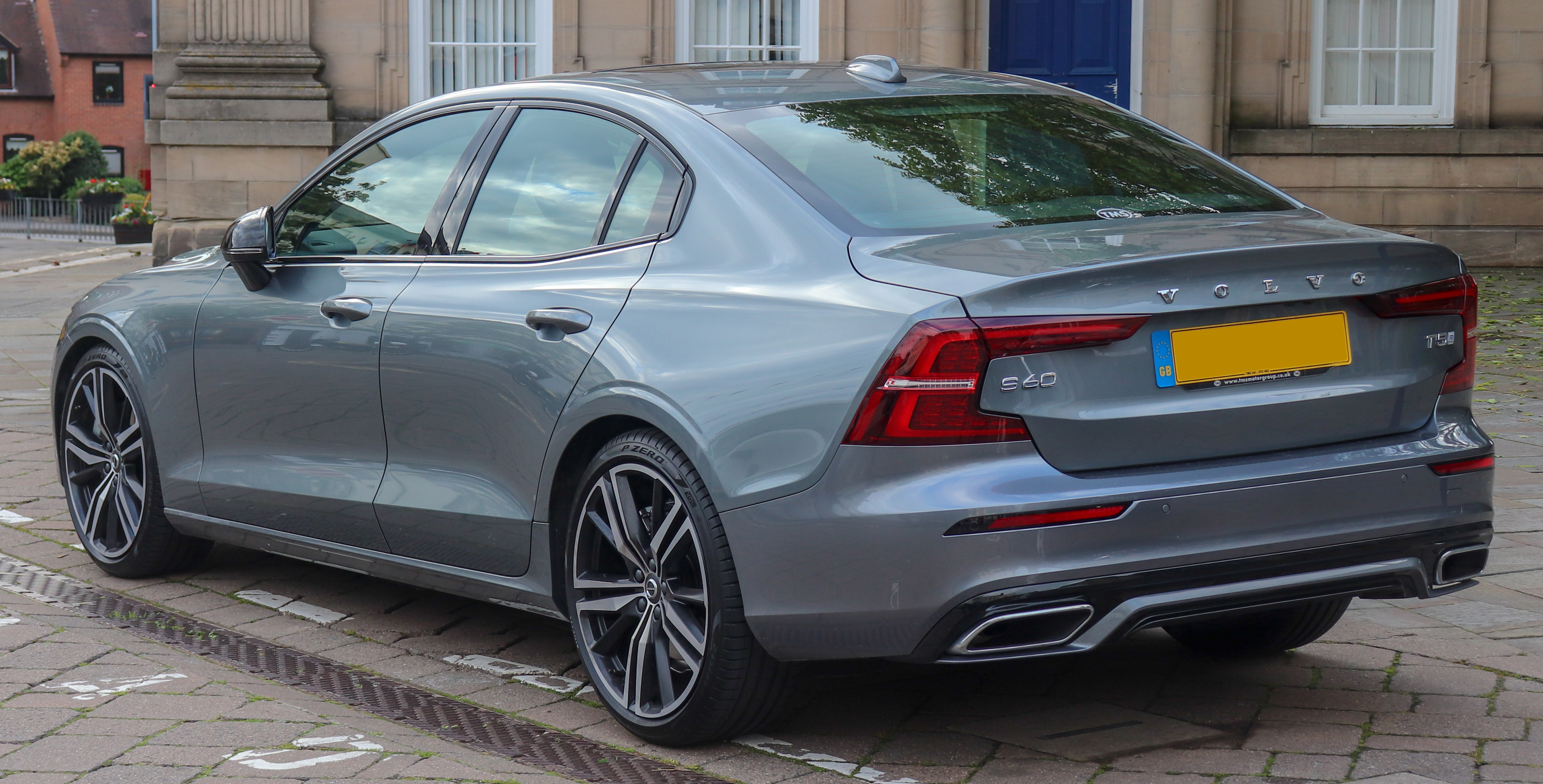 2019 Volvo S60 R-Design Edition T5 Automatic 2.0 Rear Taken in Warwick